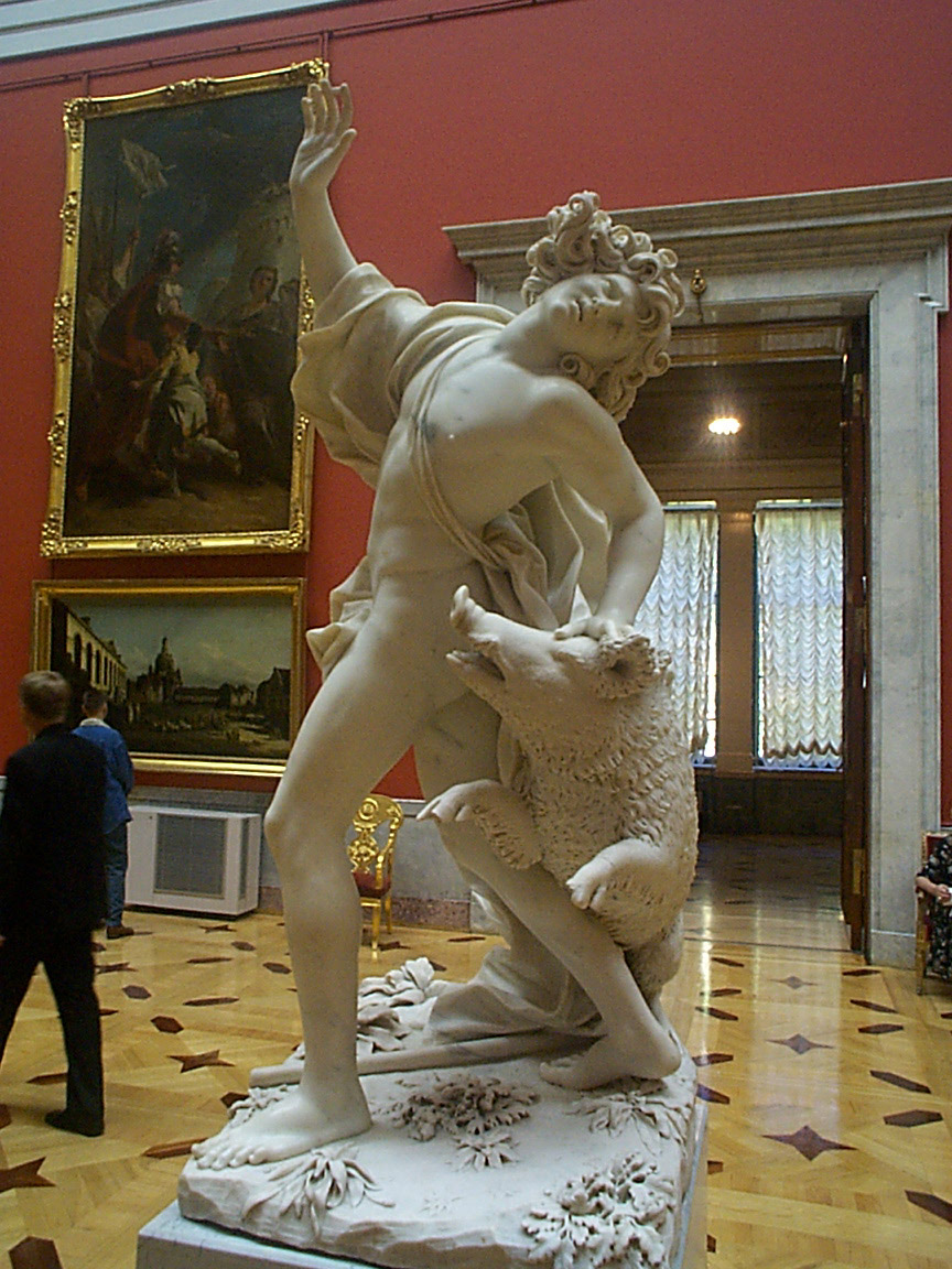 Creator: Giuseppe Mazzuoli (ca. 1644-1725). Title: The Death of Adonis. Location: Hermitage, St. Petersburg. Notes: Taught by Bernini, this sculptor reportedly took 30 years to complete this group.